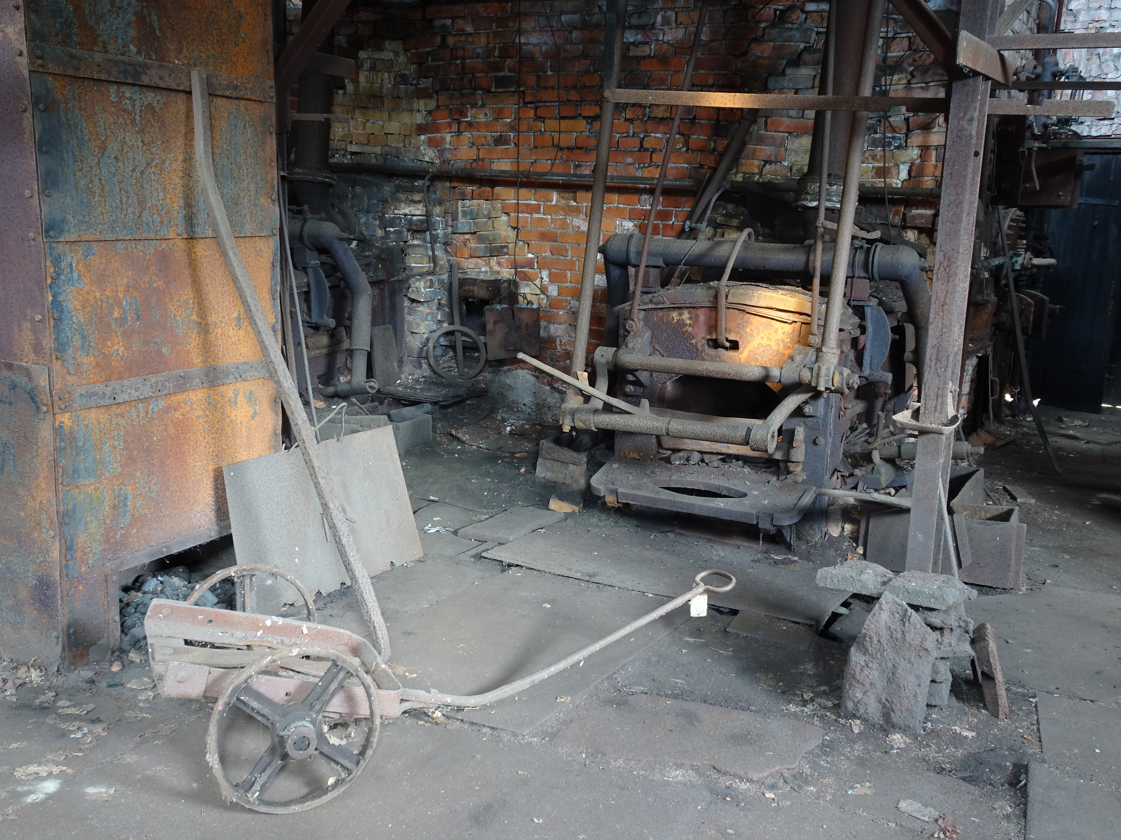 Interior of the Lancashire finery forge in Ramnäs, Sweden. One of three remaining Lancashire hearths. The Lancashire process in Ramnäs was closed 1964, and they were then the last Lancashire hearths in the world to be closed.